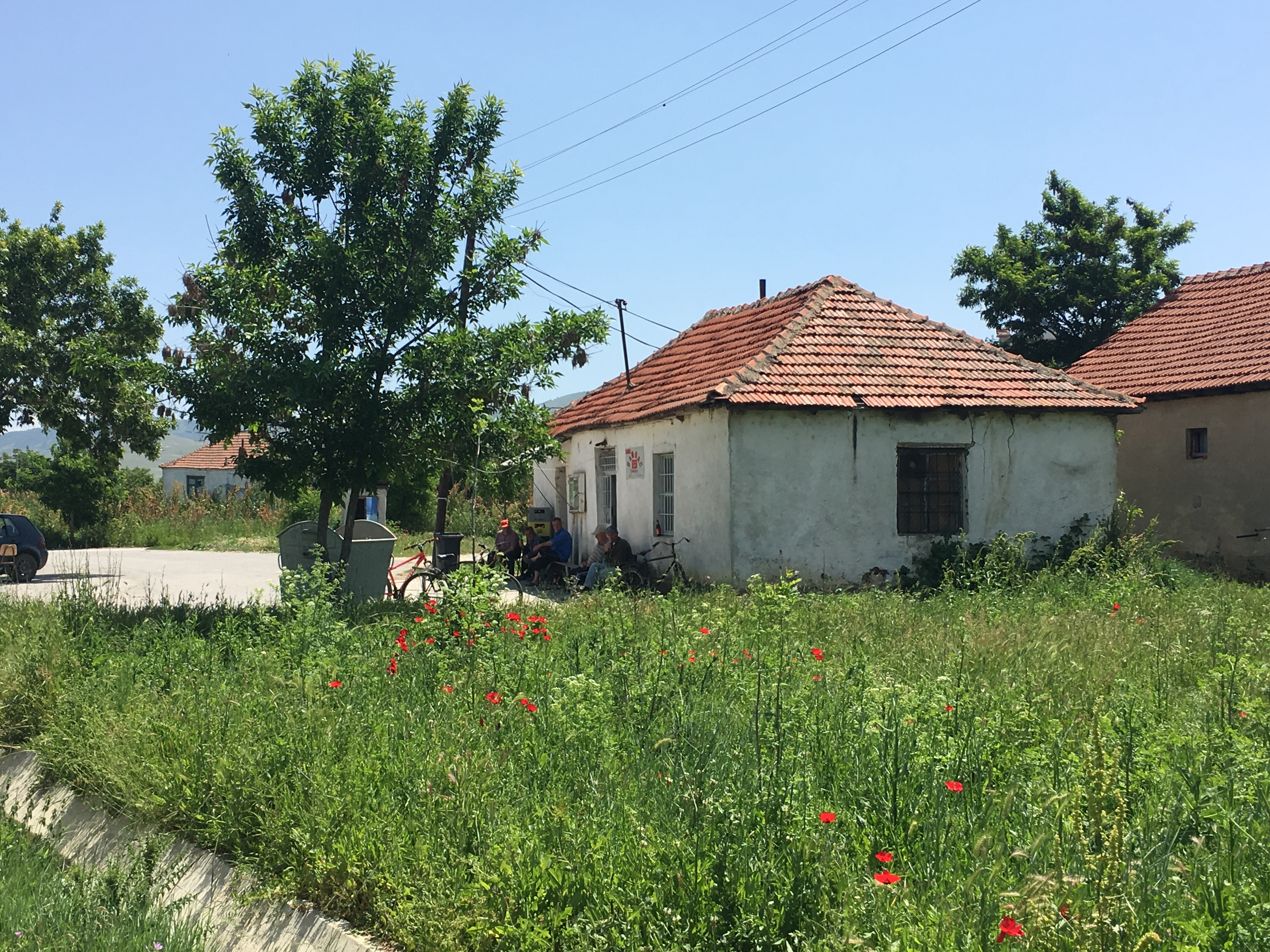 The building of the local community in the village of Dalbegovci